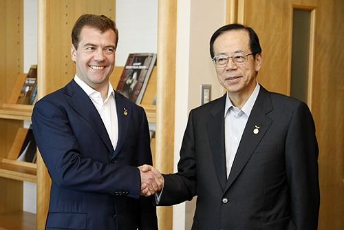 TOYAKO ONSEN, HOKKAIDO, JAPAN. With Japanese Prime Minister Yasuo Fukuda.